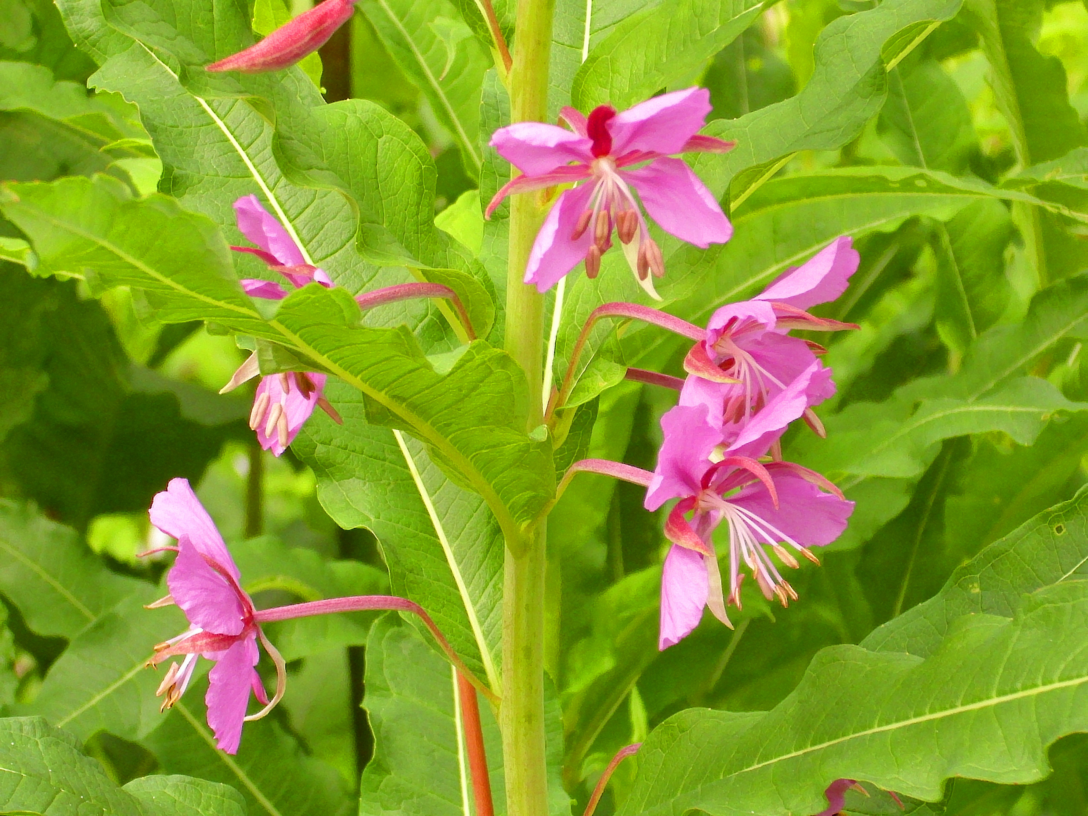 Chamerion angustifolium flowers close up, Akershus Fylke (county), Norway